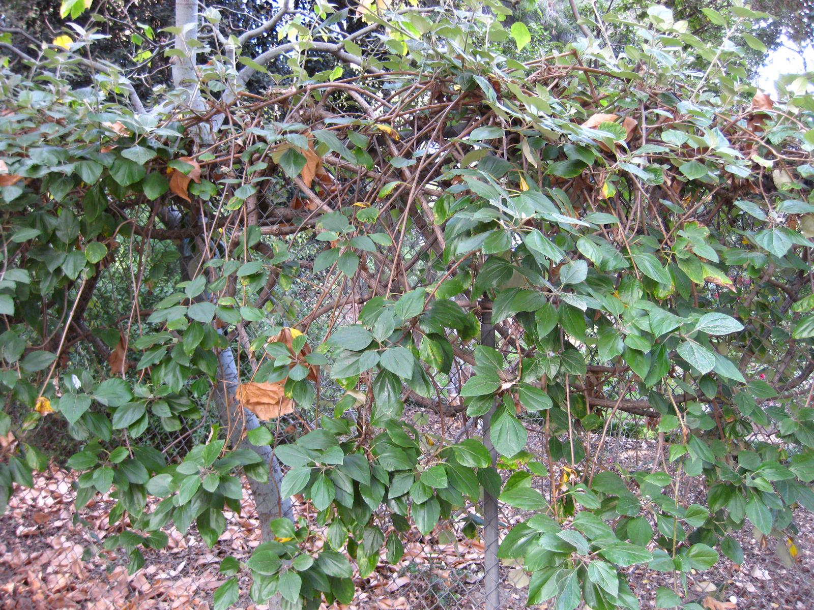 Photographed Mildred E. Mathias Botanical Garden at UCLA (Los Angeles, California) in November